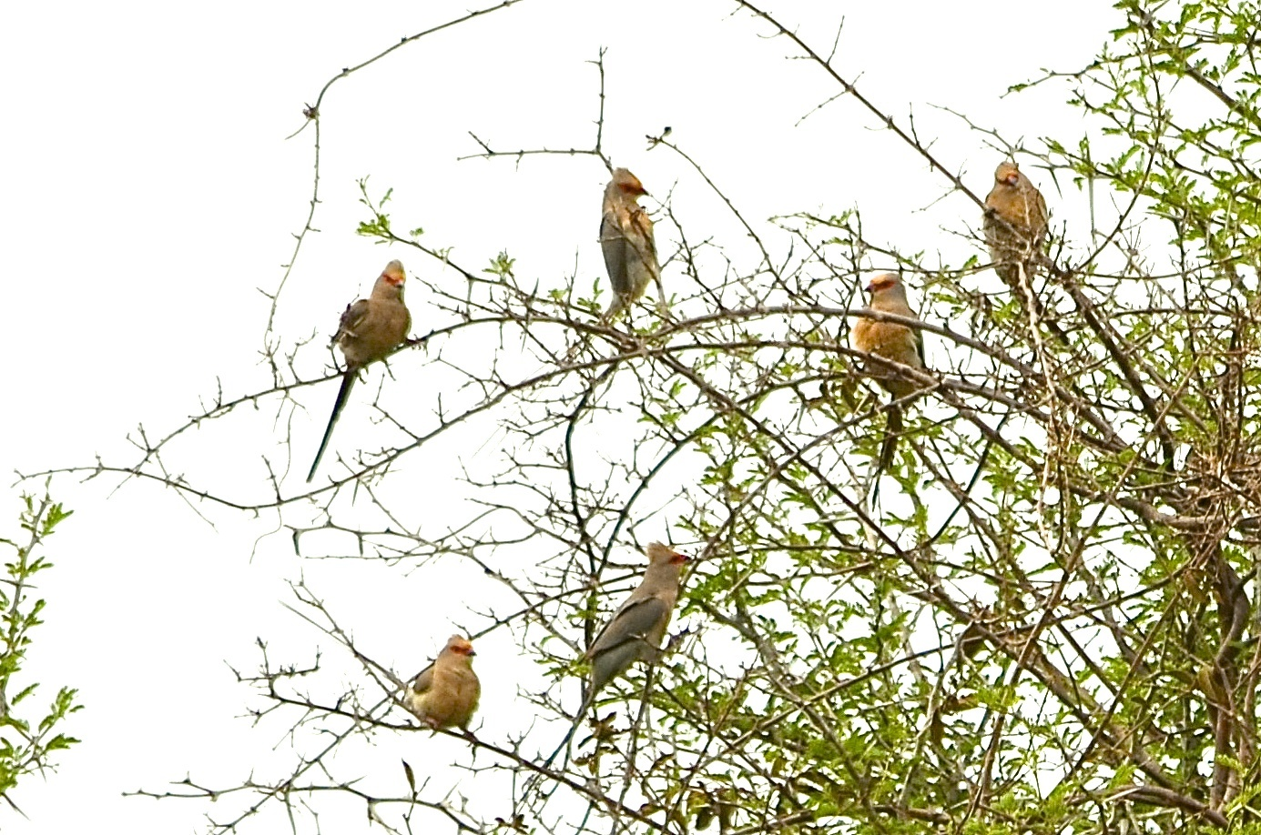 Red-face mousebirds